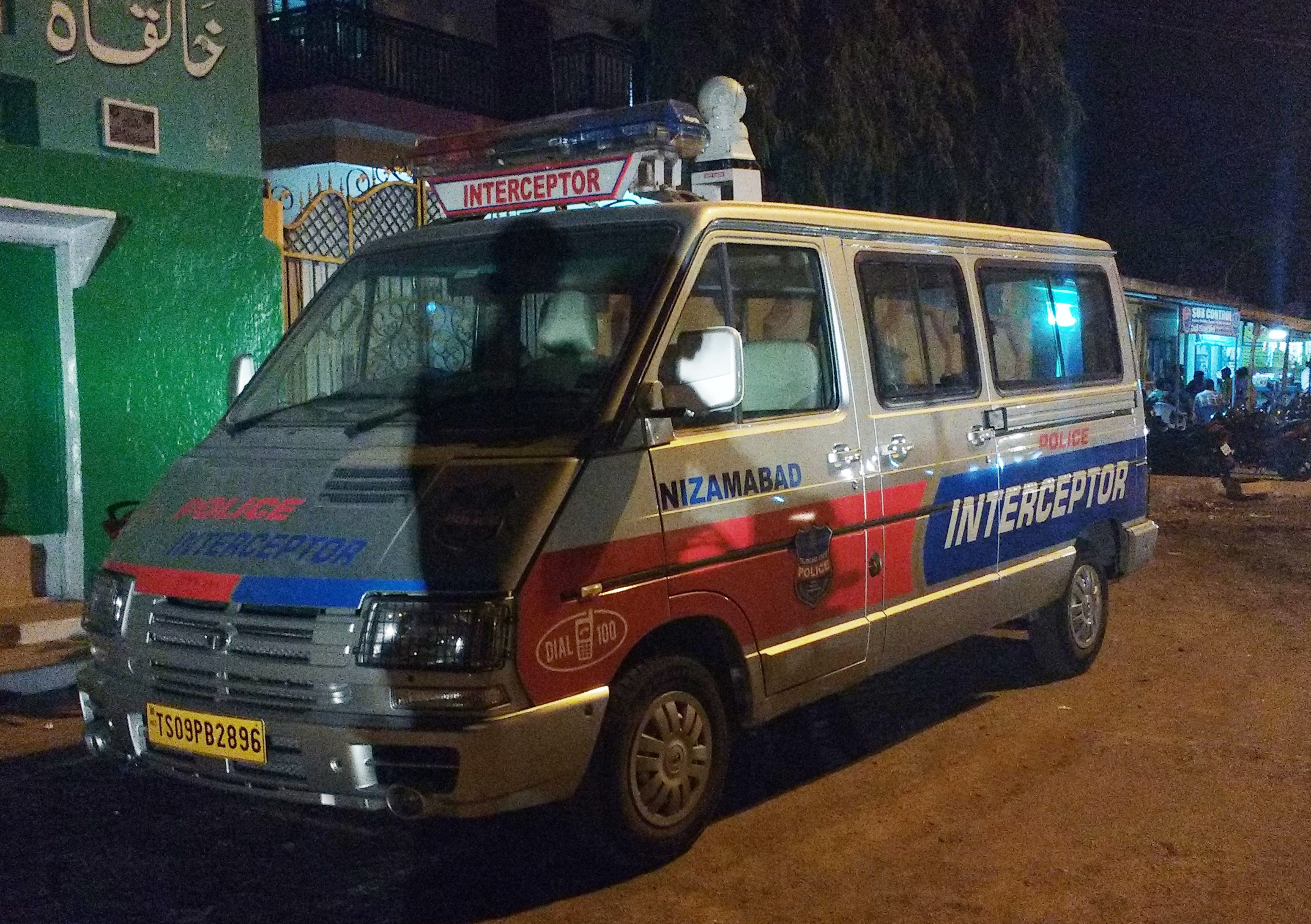 Nizamabad Police Interceptor multi-purpose vehicle parked near Idgah-e-Jadeed during the 2 day district level Ijtemah going on in the city. The car has a sophisticated speed camera, breathalyzer and 360 degrees rotating camera to keep an eye on the over speeding vehicles.